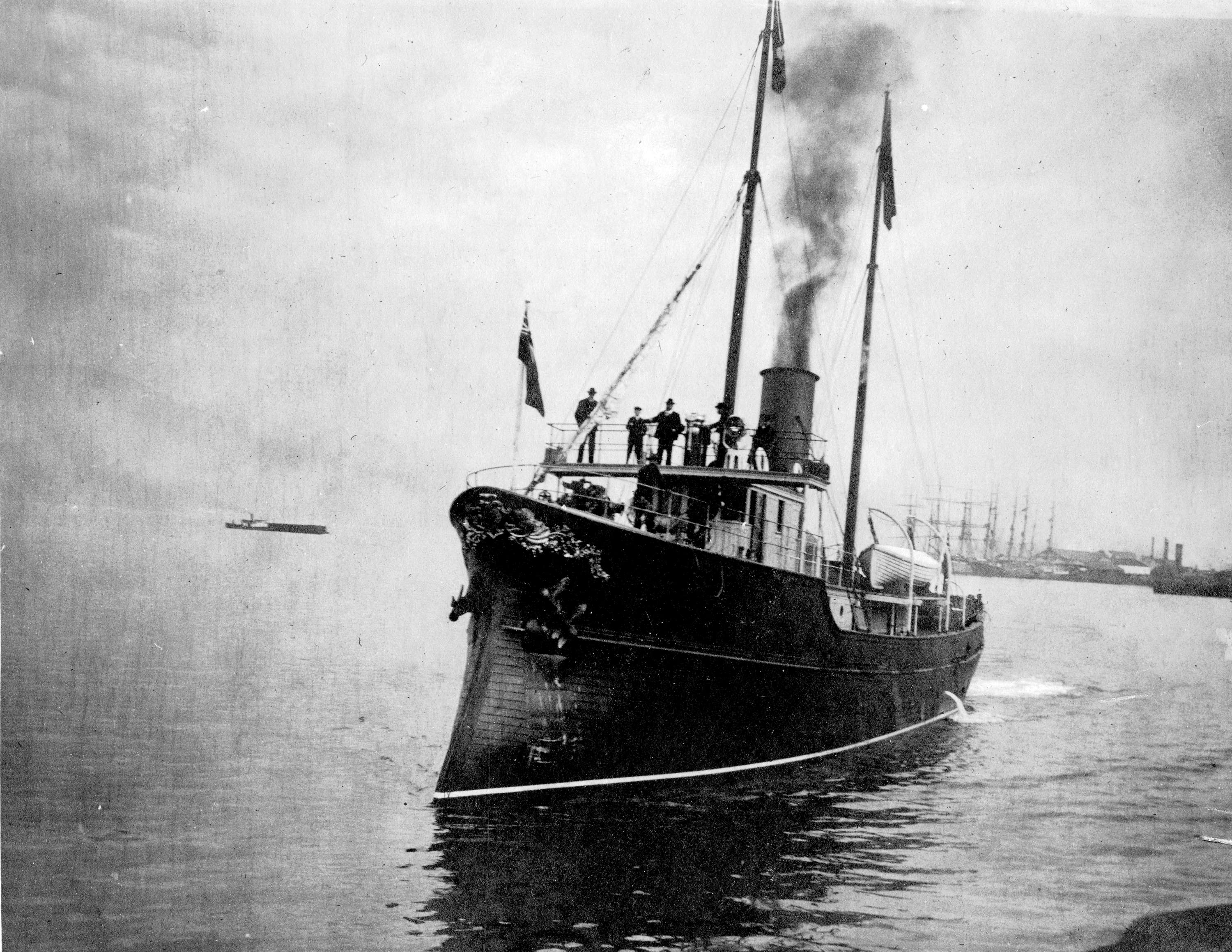 The Dominion Government Steamer Kestrel in False Creek, British Columbia, 1903 or later.